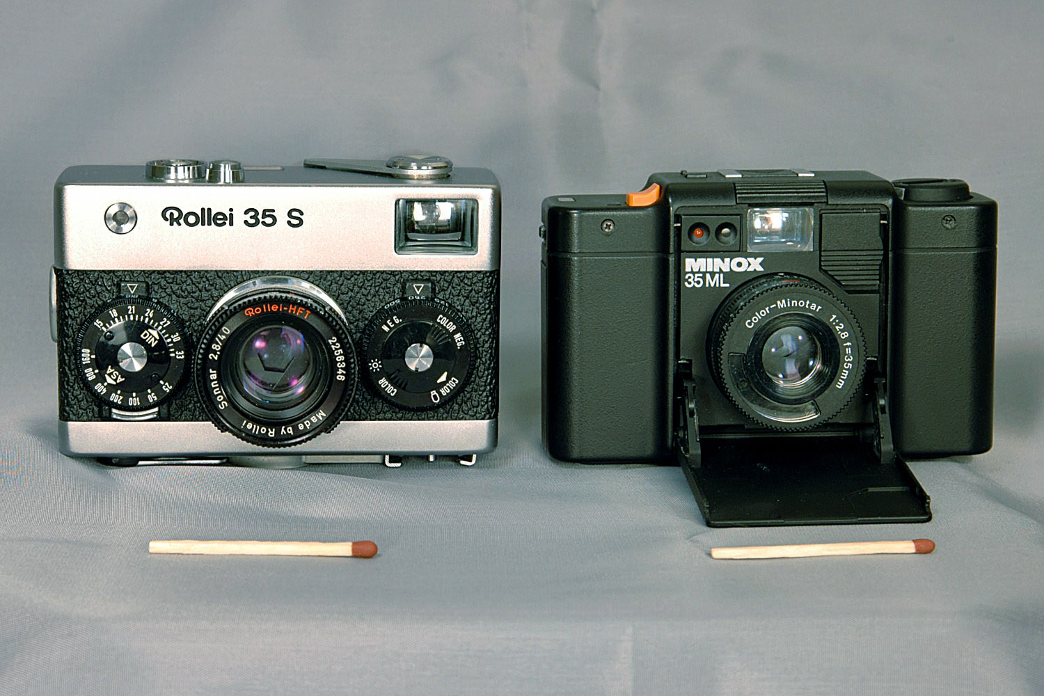 Cameras Rollei 35s and Minox 35 ML, front